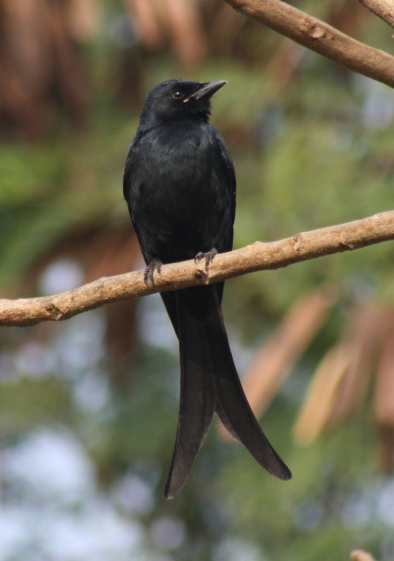 A Black drongo in Rajasthan state, northern India